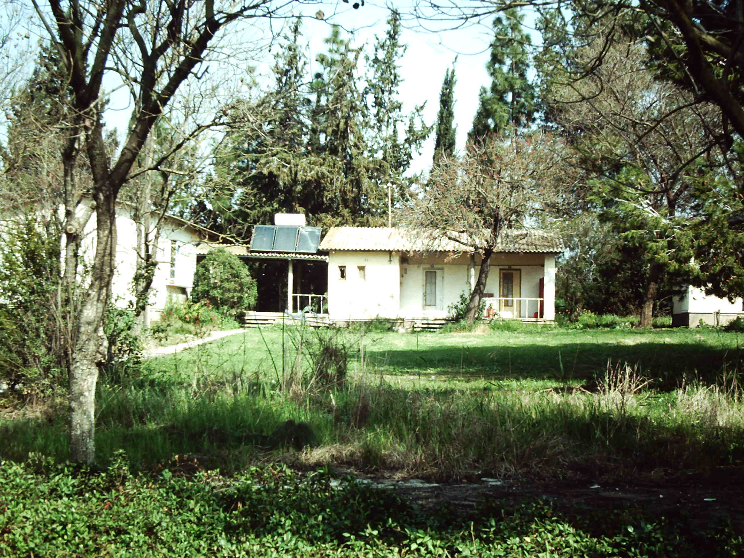 Bror Hayil